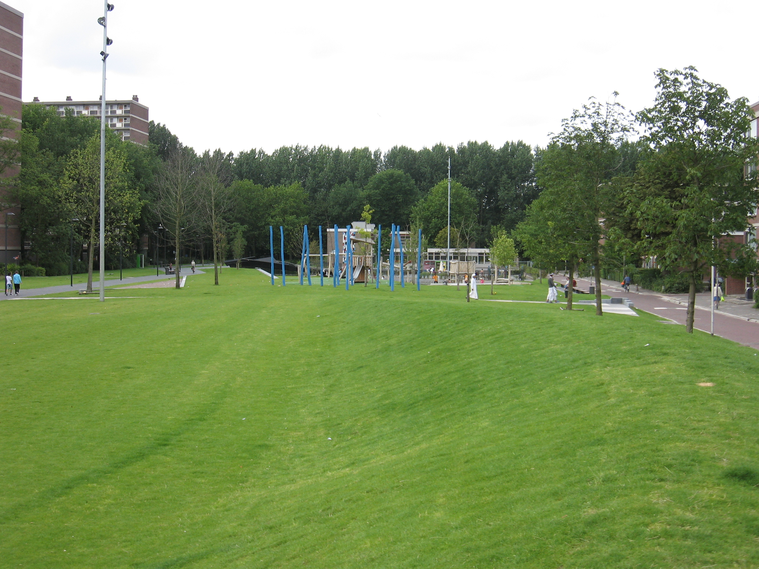 Poptahof